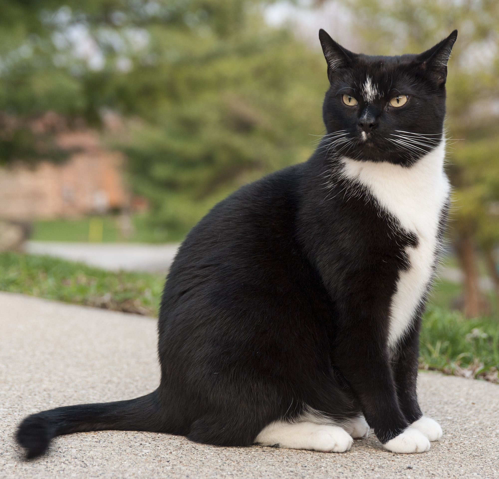 Male tuxpus named George, displaying the fundamentals of the "tuxedo" coat pattern: white "shirt" from throat extending down chest in V shape; white "gloves" on all four paws; a minimum of white patches on face, limited to a small tuft between the eyes. Copyright Adam Kent-Isaac 2014